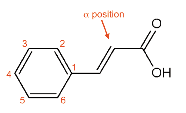 Cinnamic acid with substitution notations